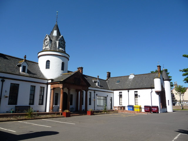 Randolph Wemyss Hospital, Buckhaven The attractive Randolph Wemyss Hospital in Buckhaven, just off Wellesley Road